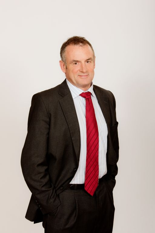 Trevor Mallard - NZ Labour Party MP